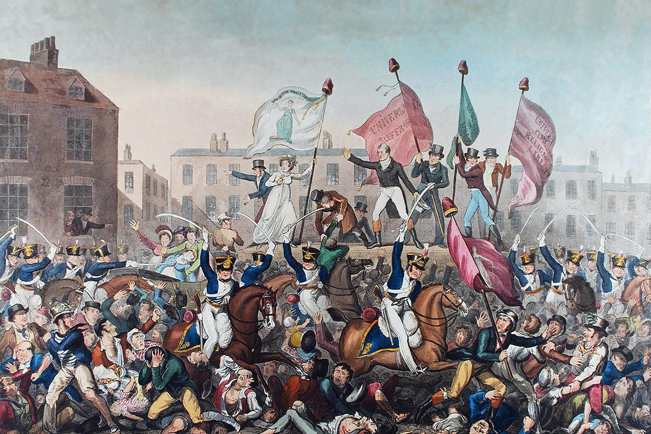 To Henry Hunt, Esq., as chairman of the meeting assembled in St. Peter's Field, Manchester, sixteenth day of August, 1819, and to the female Reformers of Manchester and the adjacent towns who were exposed to and suffered from the wanton and fiendish attack made on them by that brutal armed force, the Manchester and Cheshire Yeomanry Cavalry, this plate is dedicated by their fellow labourer, Richard Carlile:[1]a coloured engraving that depicts the Peterloo Massacre (military suppression of a demonstration in Manchester, England by cavalry charge on August 16, 1819 with loss of life) in Manchester, England. All the poles from which banners are flying have Phrygian caps or liberty caps on top. Not all the details strictly accord with contemporary descriptions; the banner the woman is holding should read: Female Reformers of Roynton -- "Let us die like men and not be sold like slaves".